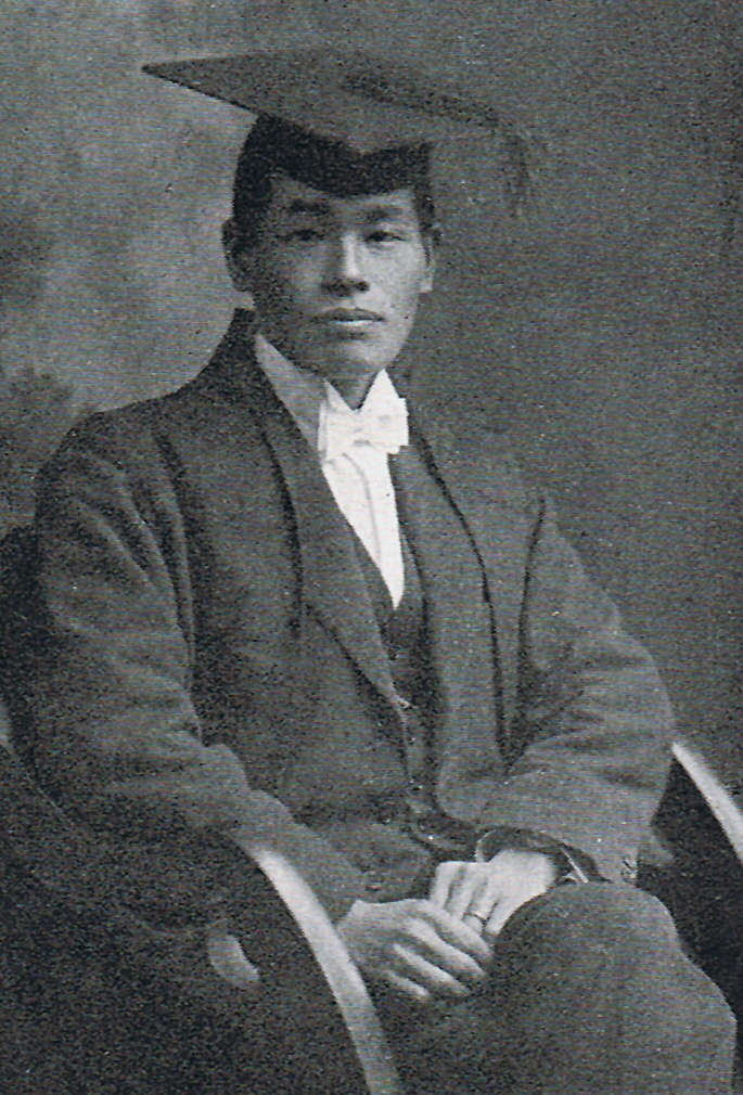 IJA General Shizuichi Tanaka (then Captain) at Oxford University, 1920. オックスフォード大学の制服を着用した田中静壱大将（当時大尉）。大正九年。